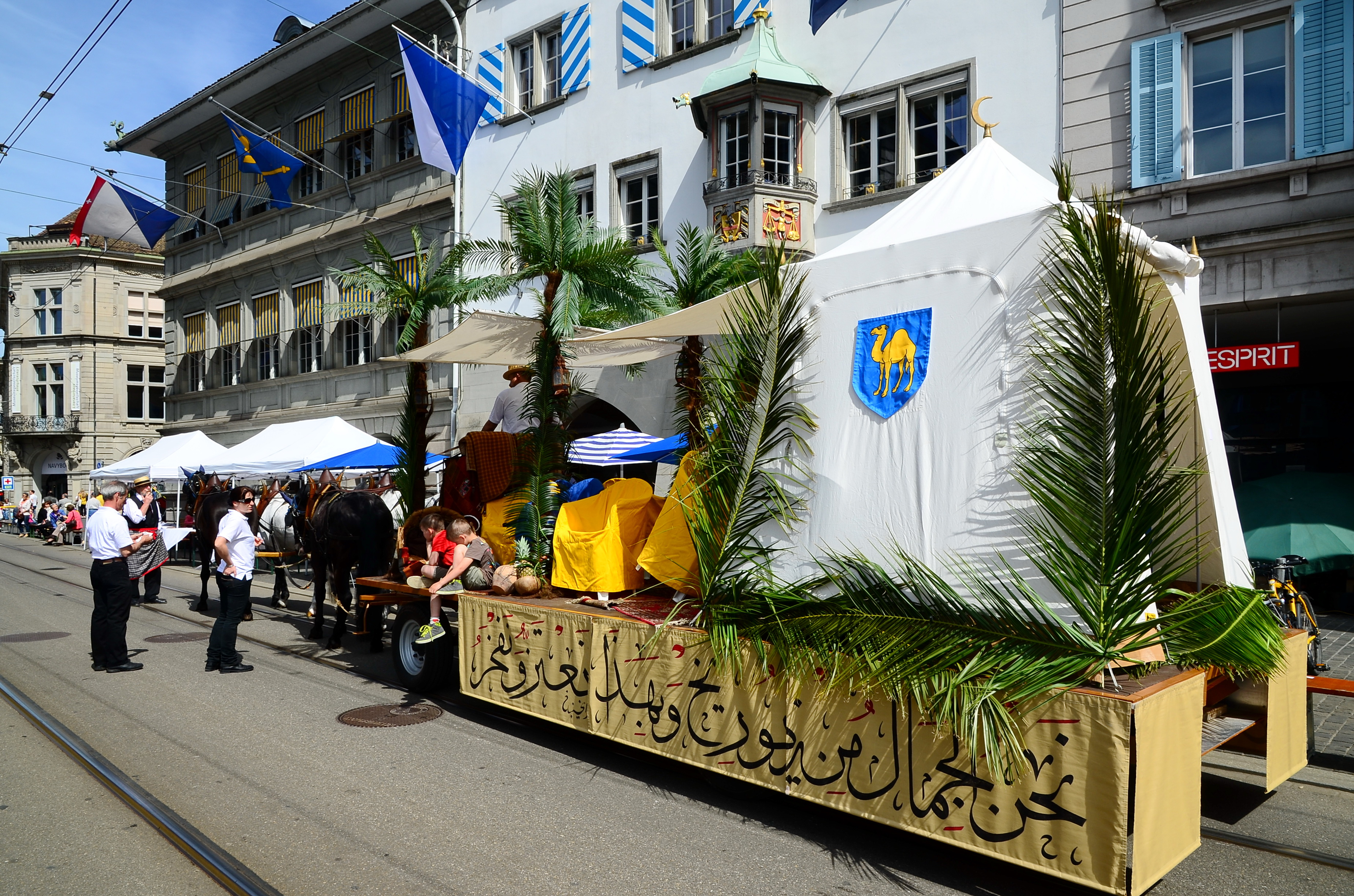 Sechseläuten 2013, Limmatquai in Zürich (Switzerland) : Guild house «zur Haue» of the Zunft zum Kämbel, Saffran guild house in the Background.